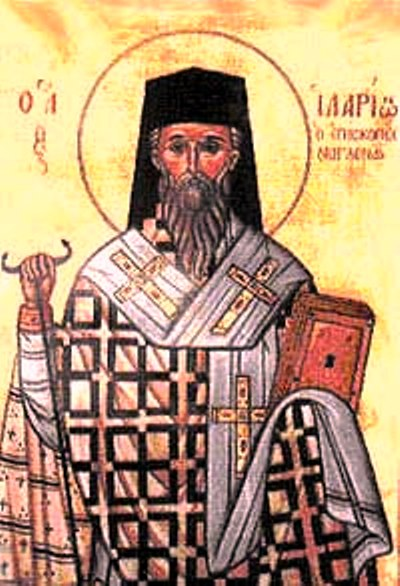 Saint Hilarion of Meglen